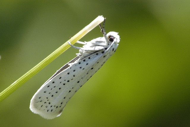 Picture taken in Commanster, Belgian High Ardennes . Species: Yponomeuta evonymella